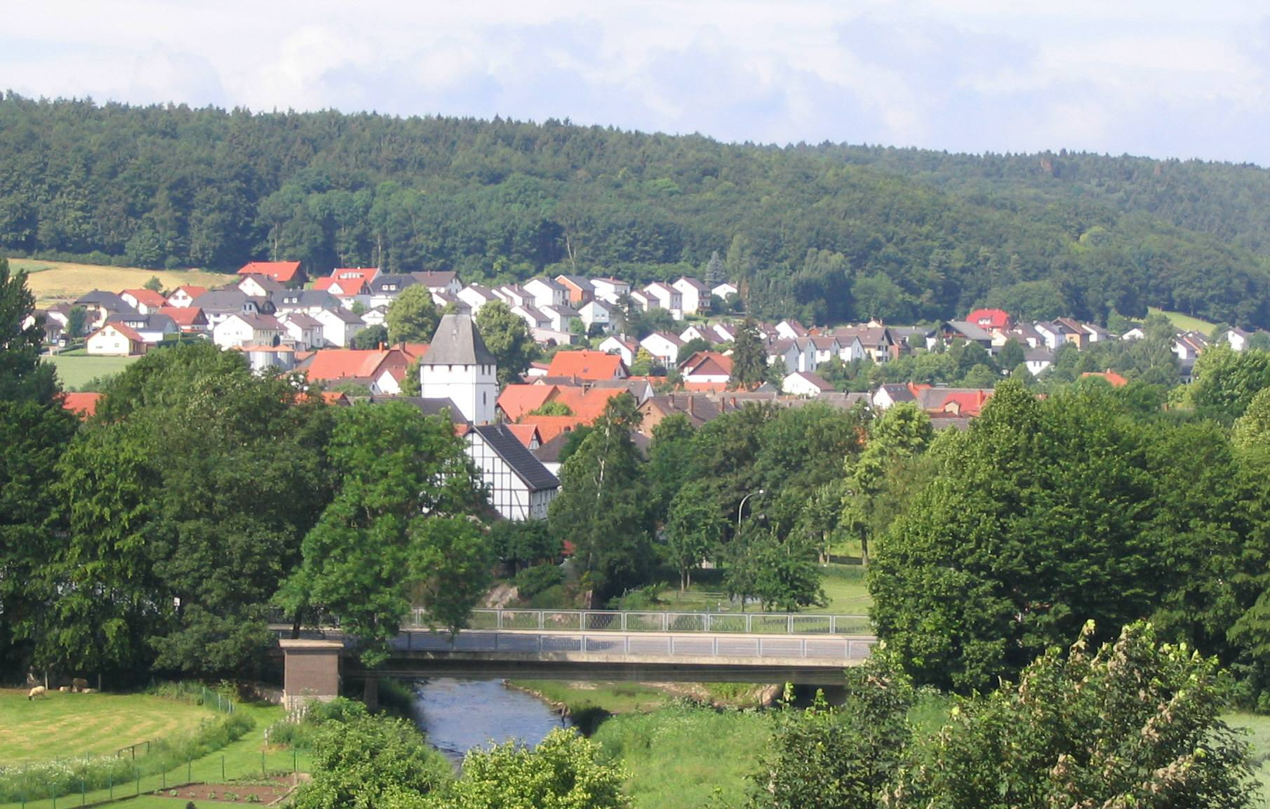 Welda,near Warburg, Germany, East-West Direction